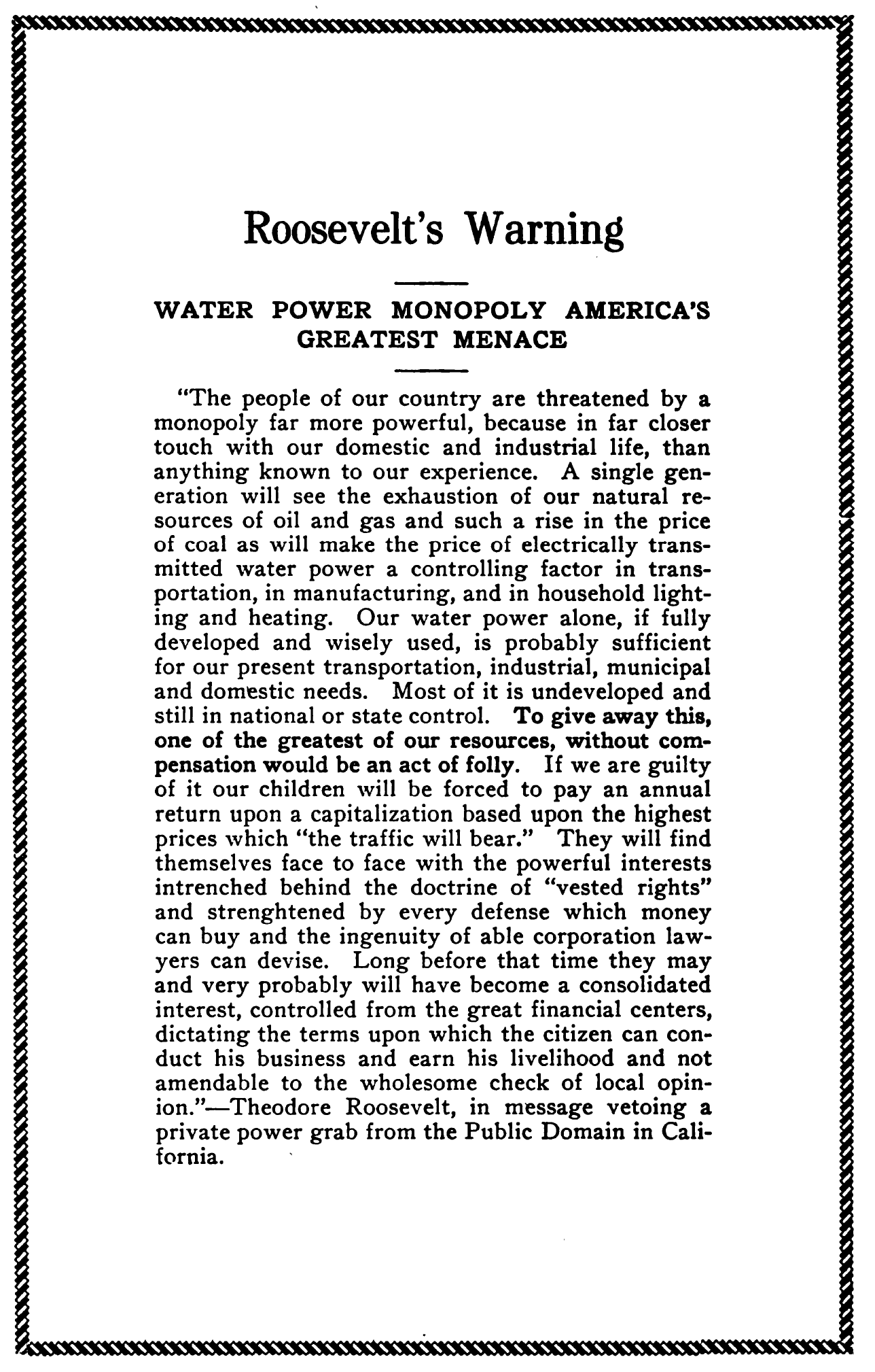 Full Page quote from Theodore Roosevelt: Roosevelt's Warning - Water Power Monopoly America's Greatest Menace Published in 1923 Public Ownership of Public Utilities. Chicago, Ill. Vol 7 No 7